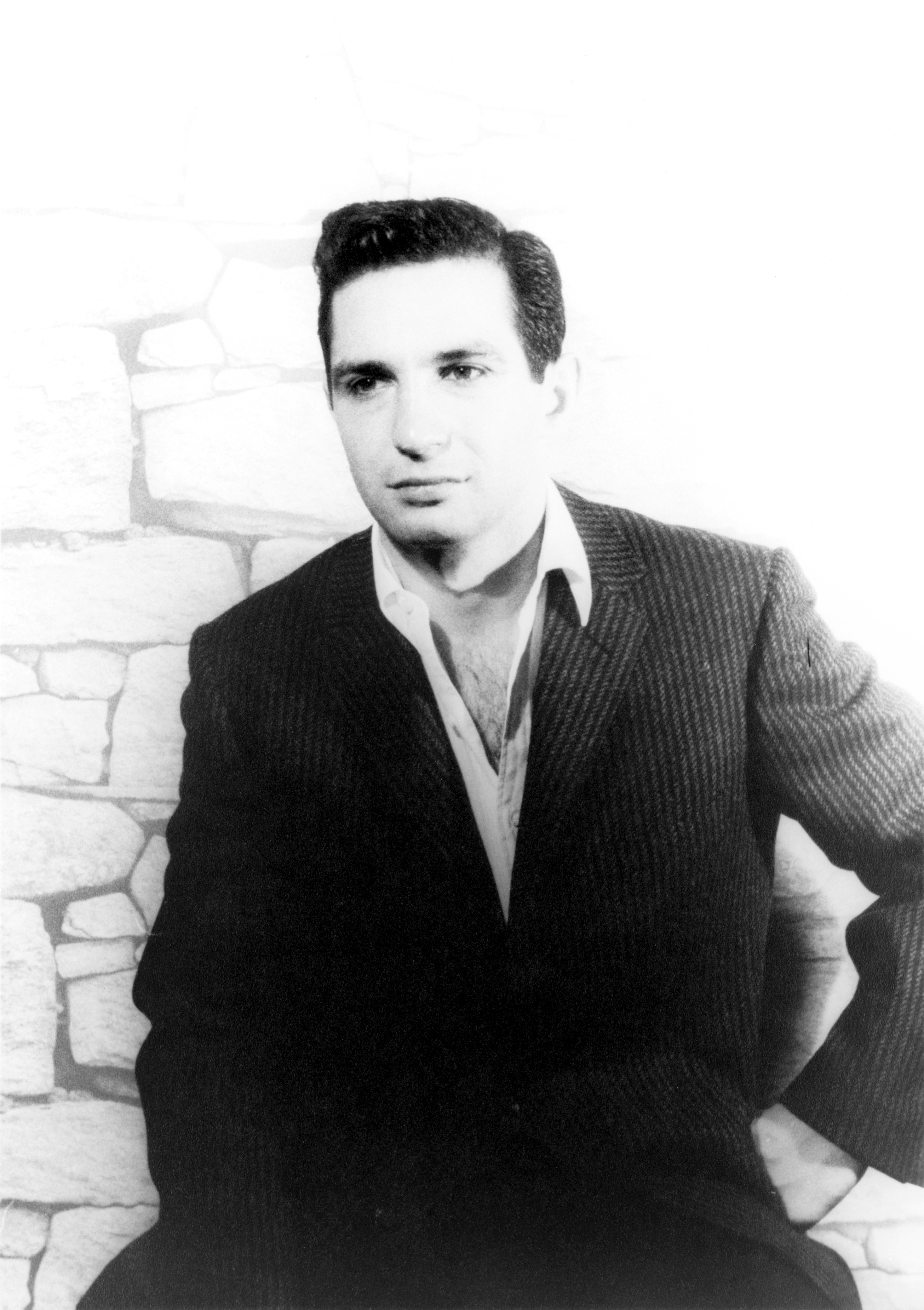 Portrait of Ben Gazzara. Title derived from information on verso of photographic print. Van Vechten number: II NN 14. Gift; Carl Van Vechten Estate; 1966. Forms part of: Portrait photographs of celebrities, a LOT which in turn forms part of the Carl Van Vechten photograph collection (Library of Congress).Portrait of Ben Gazzara, 1955 May 13.